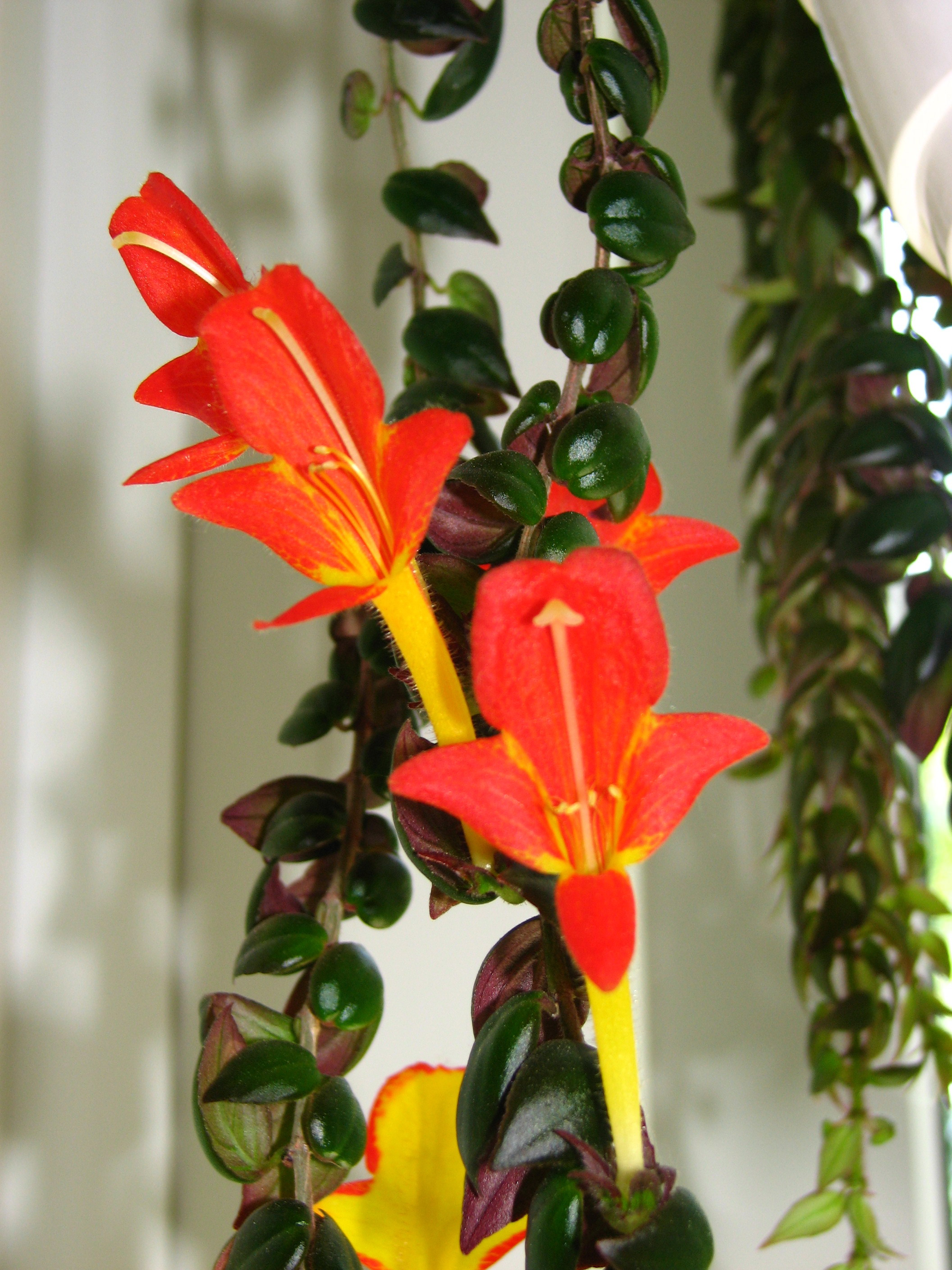 Columnea × banksii (pot plant).